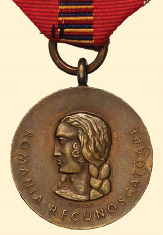 Romania Medal against communism